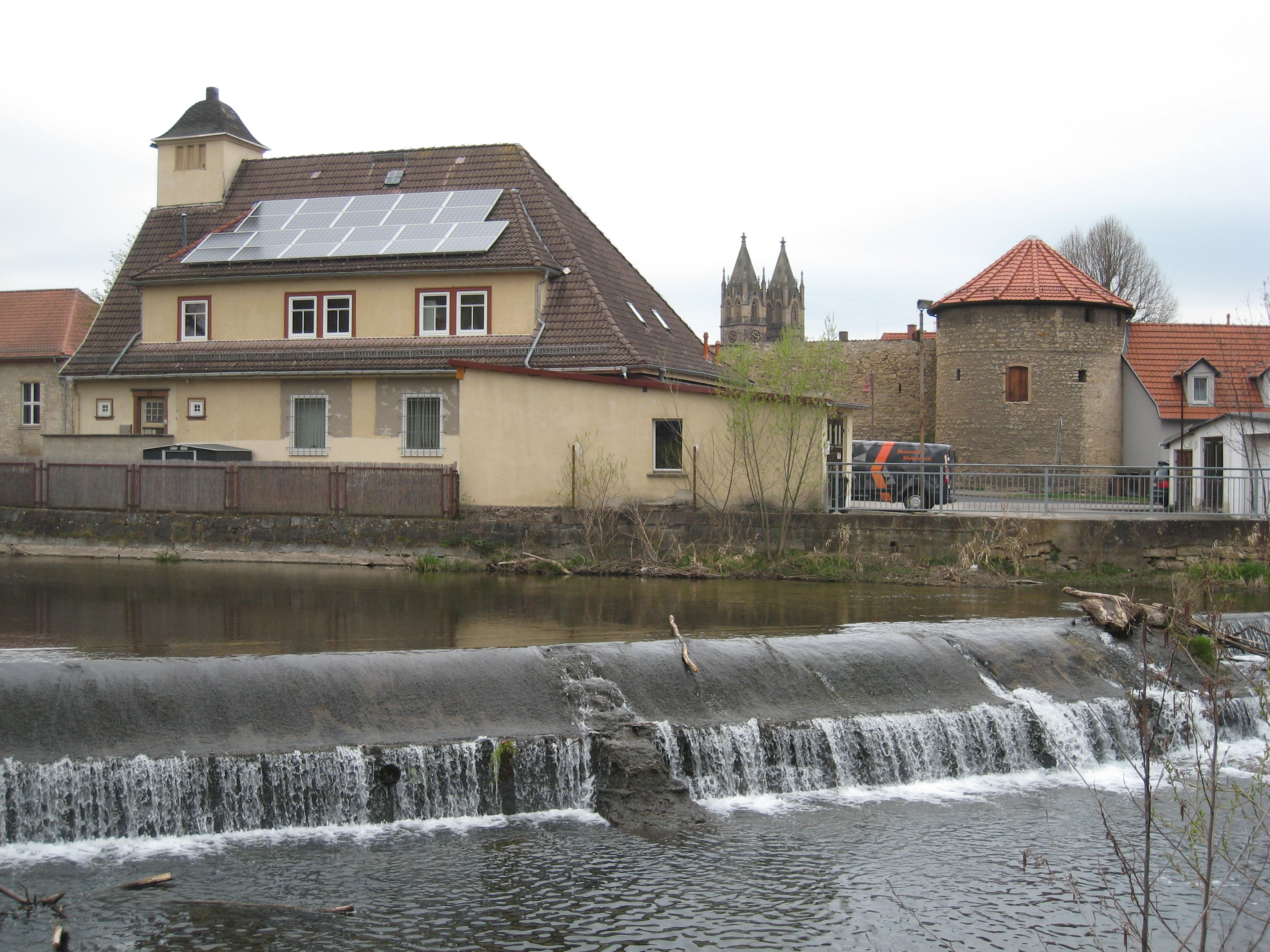 Lederfabrik Stadtilm, Wehr